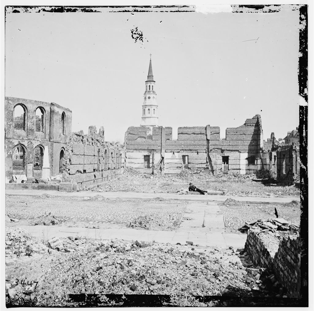 Ruins of Secession Hall, Charleston, Charleston County, South Carolina. Wet collodion glass stereograph negative. Library of Congress, Washington, D. C.